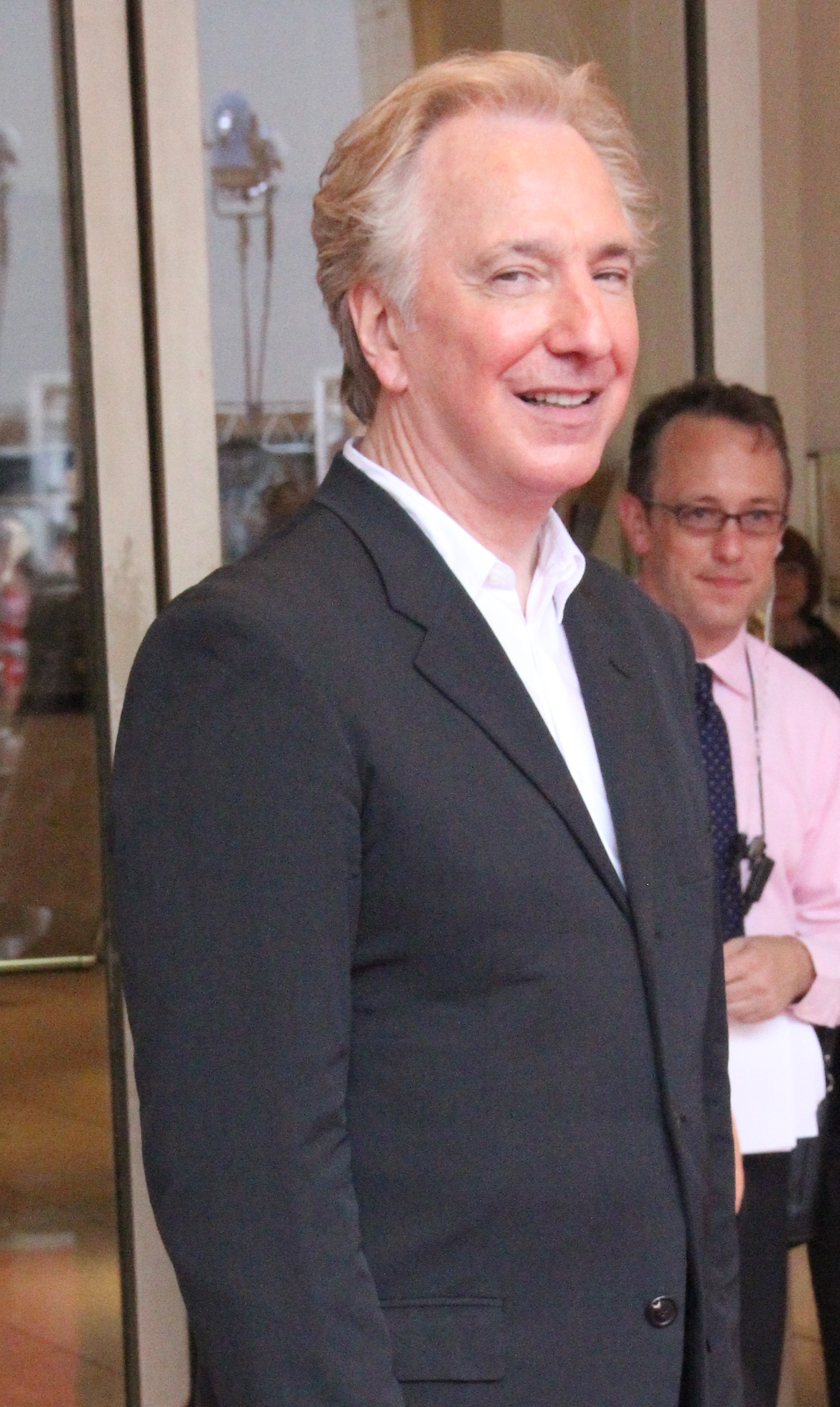 Alan Rickman at the film premiere of Harry Potter and The Deathly Hallows: Part 2 in Avery Fisher Hall-Lincoln Center, New York City in July 2011.